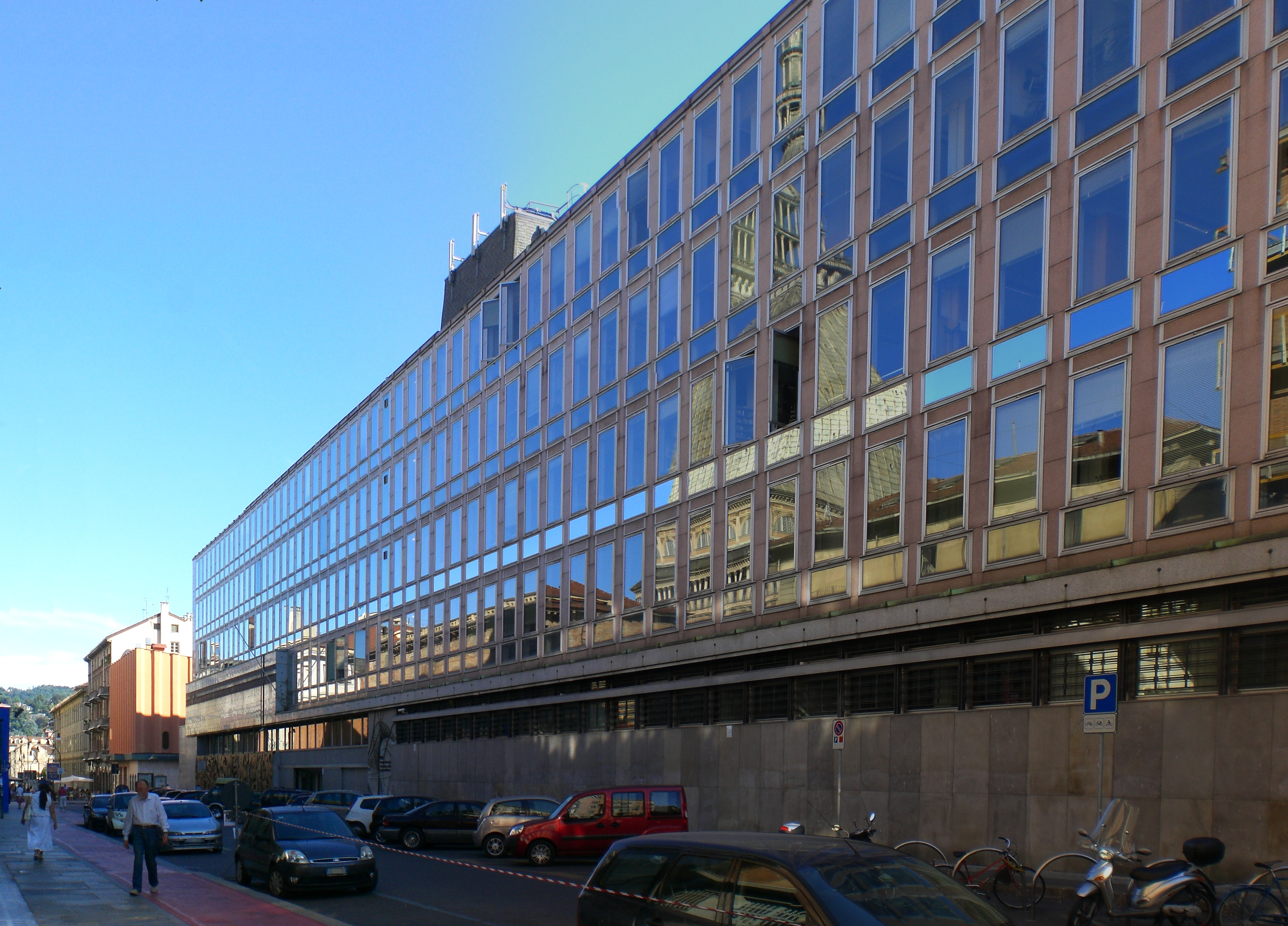 RAI building in Torino. In reflection, the Mole Antonelliana.